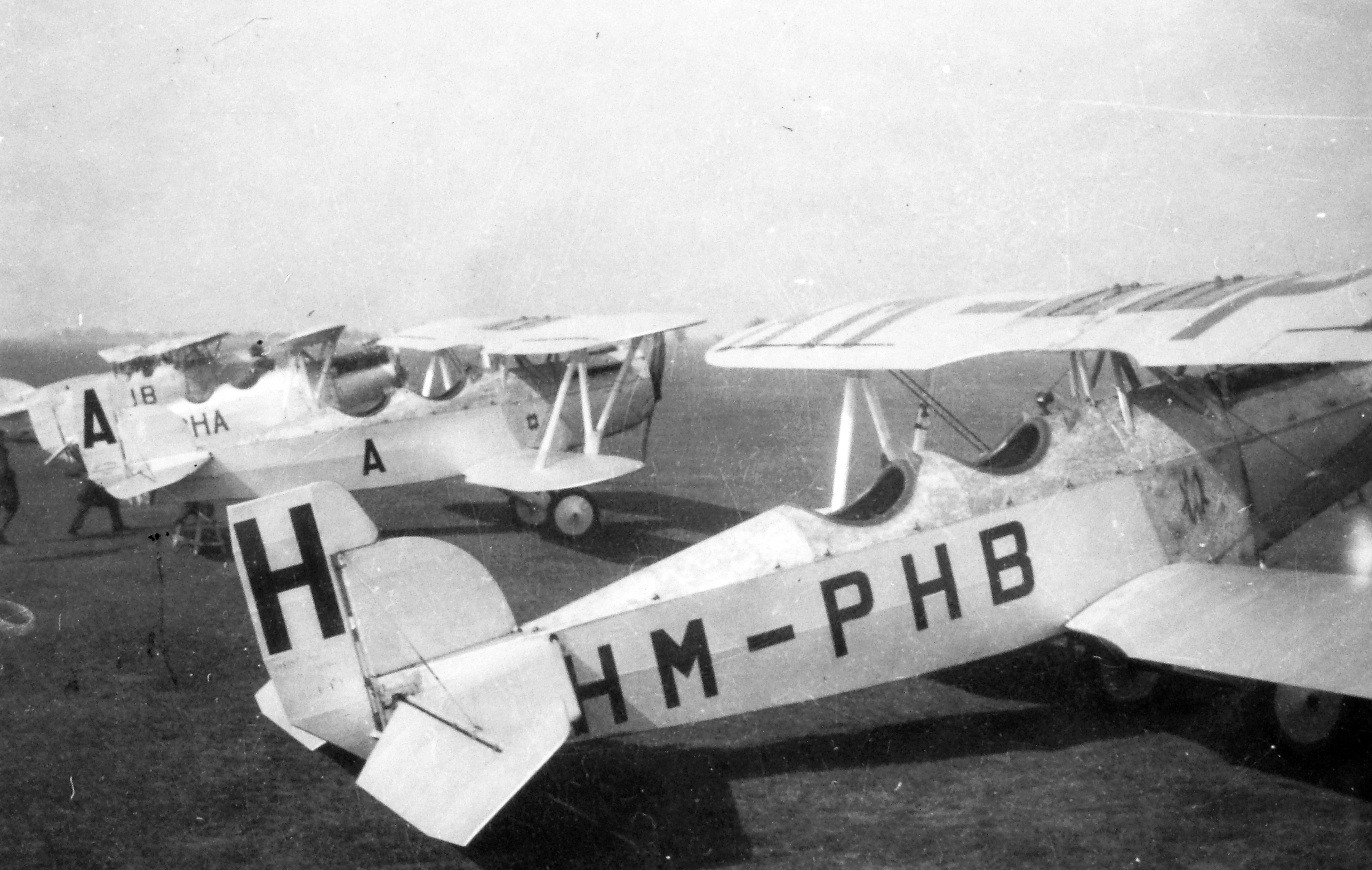 Manfred Weiss built Heinkel HD.22 trainers Tags: Heinkel-brand, airplane, airport, transport, Royal Hungarian Air Force, Weiss Manfréd-brand, Hungarian brand, license, biplane Title: Heinkel HD 22 típusú repülőgépek.